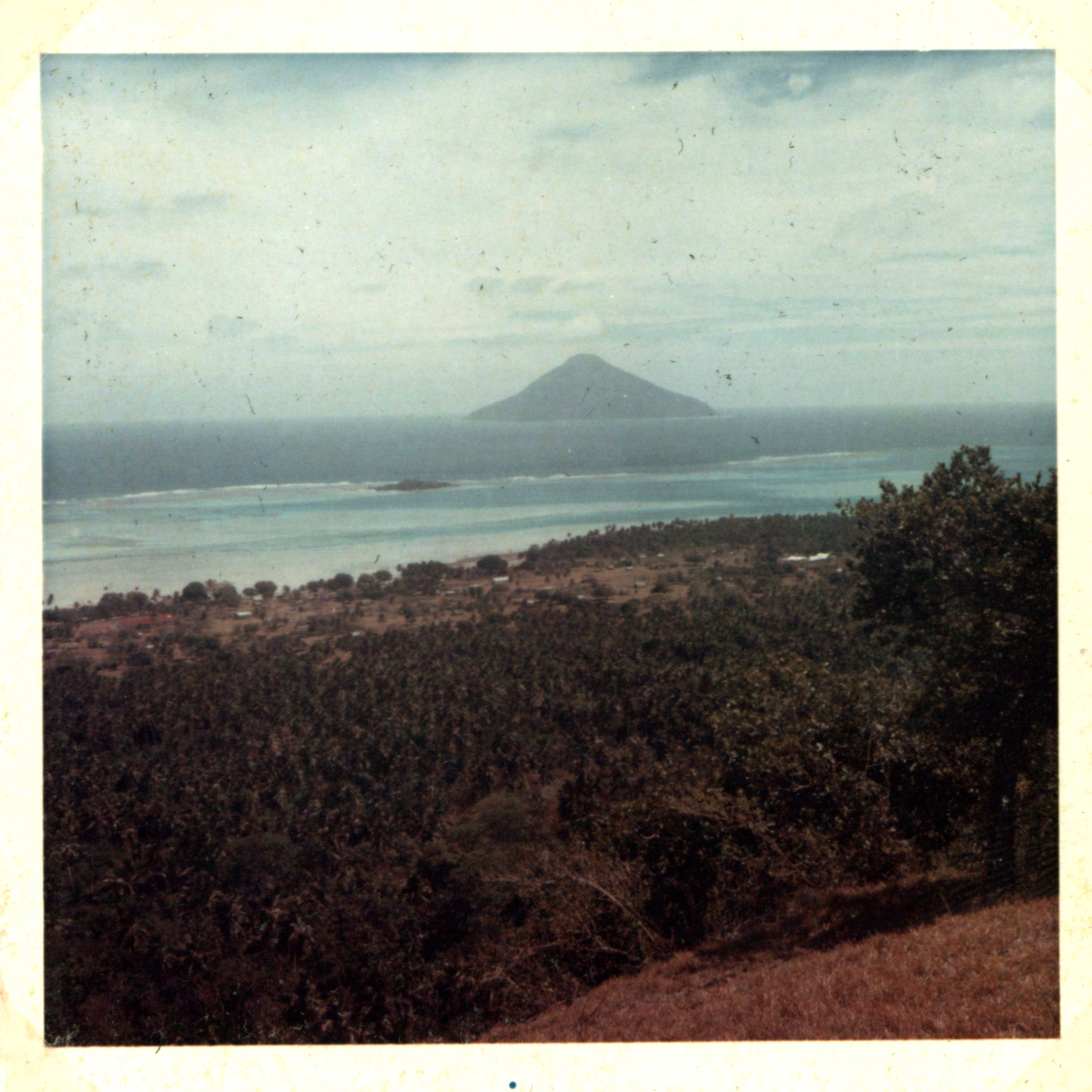 Tafahi island and Vaipoa village seen from the central ridge of Niuatoputapu (Tonga).